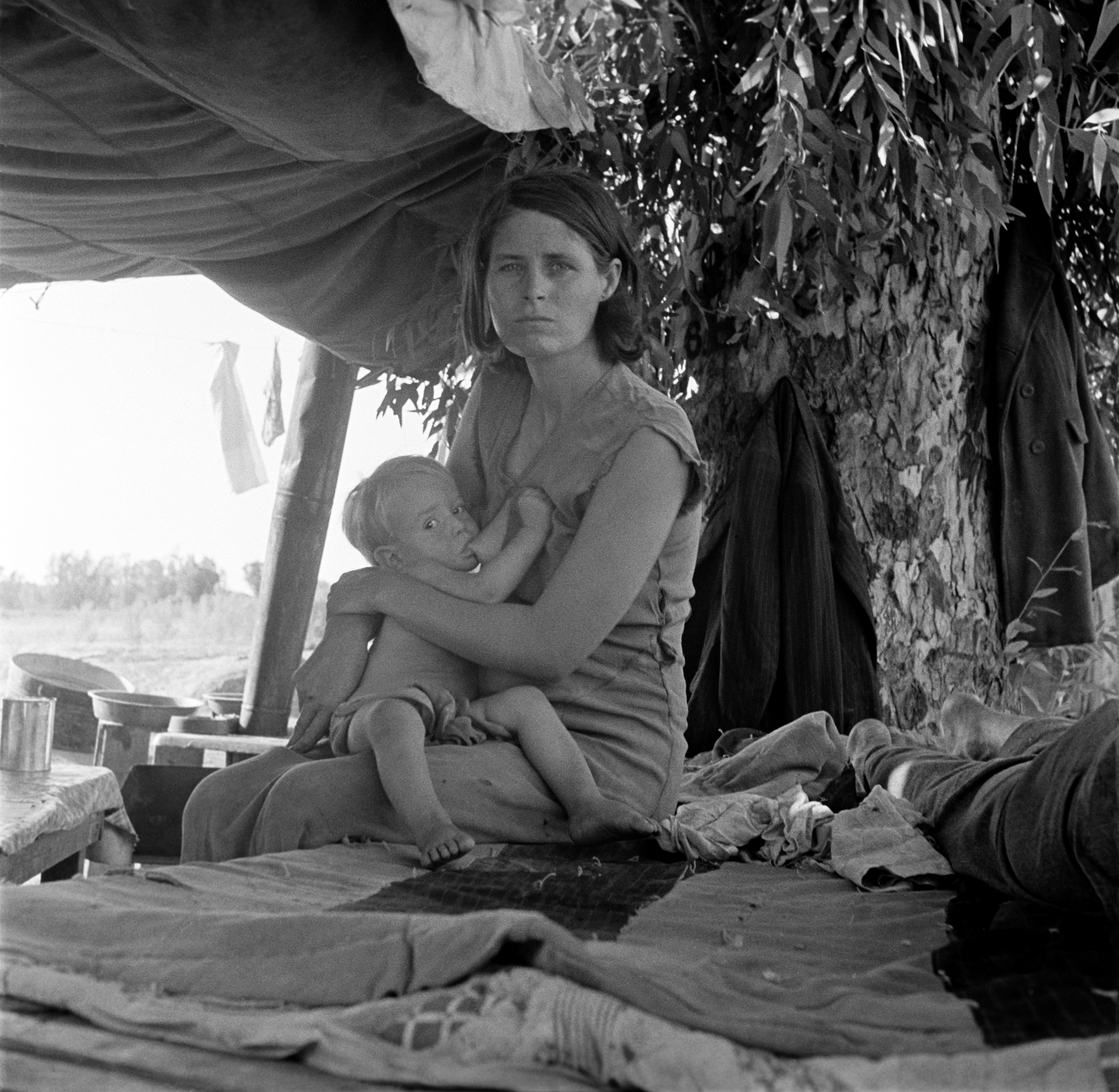 Drought refugees from Oklahoma camping by the roadside. They hope to work in the cotton fields. The official at the border (California-Arizona) inspection service said that on this day, August 17, 1936, twenty-three car loads and truck loads of migrant families out of the drought counties of Oklahoma and Arkansas had passed through that station entering California up to 3 o'clock in the afternoon.